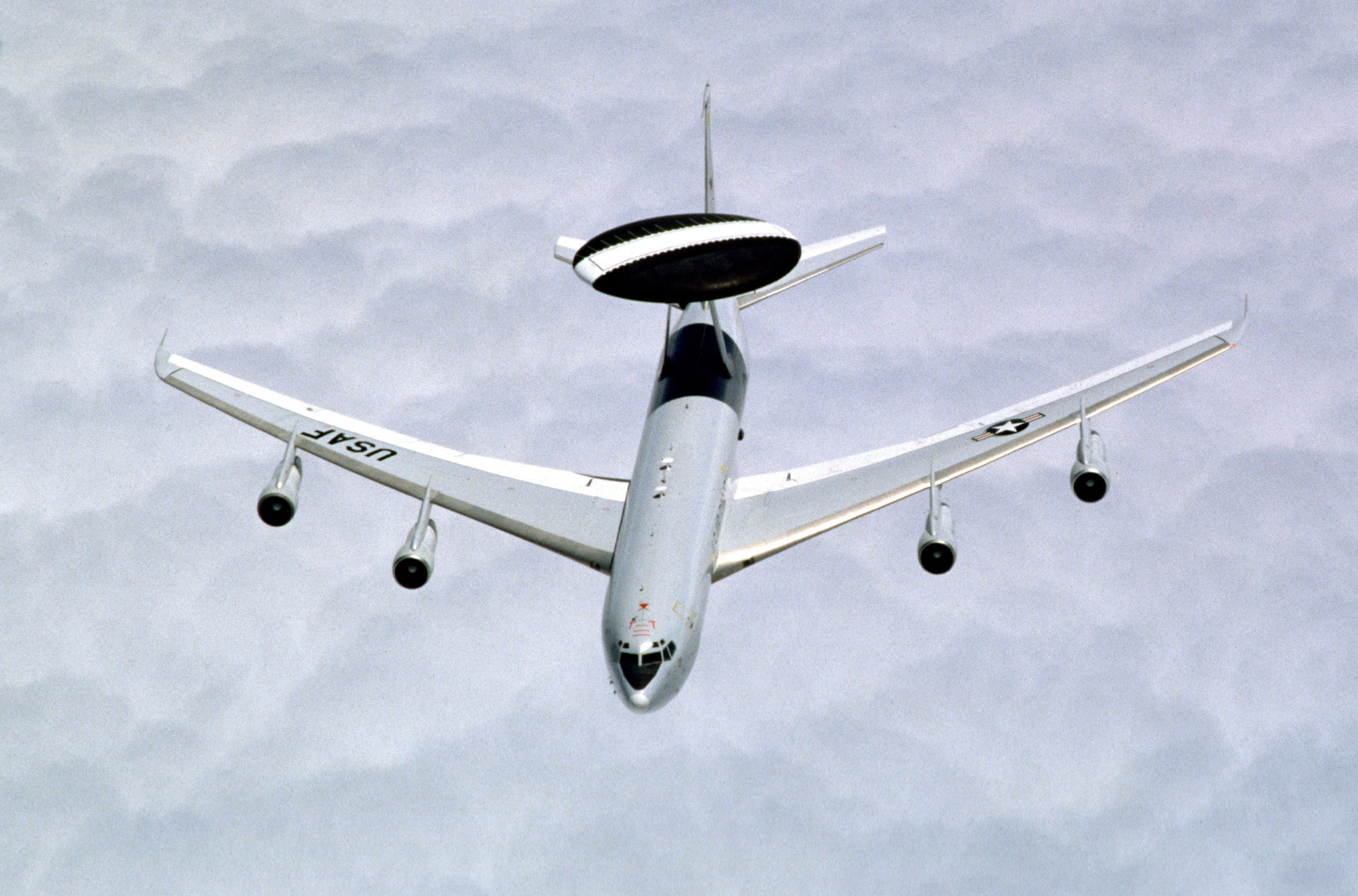 An E-3 Sentry approaches a KC-10A Extender for aerial refueling June 29, 2000. The E-3 Sentry is an airborne warning and control system aircraft that provides all-weather surveillance, command, control and communications needed by commanders of U.S. and NATO air defense forces. The E-3 Sentry is modified Boeing 707/320 commercial airframe with a rotating radar dome. The dome is 30 feet in diameter, 6 feet thick and is held 11 feet above the fuselage by two struts. It contains a radar subsystem that permits surveillance from the Earth's surface up into the stratosphere, over land or water. The radar has a range of more than 200 miles for low-flying targets and farther for aerospace vehicles flying at medium to high altitudes.